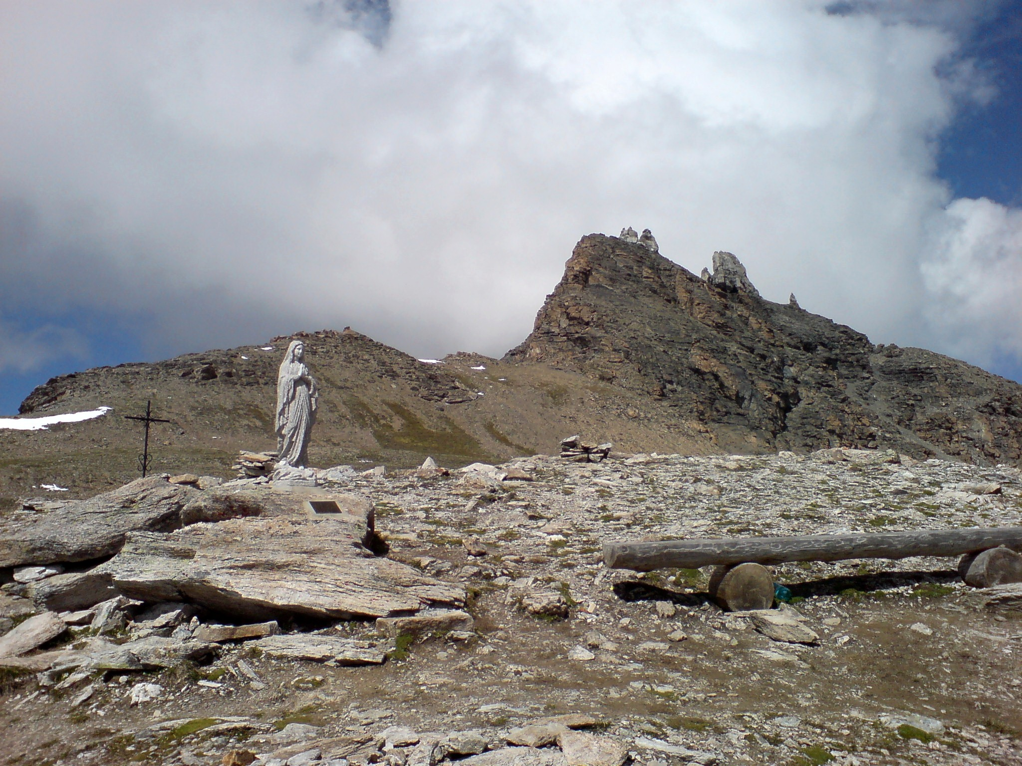 Becs de Bosson (near Grimmentz), Pennine Alps